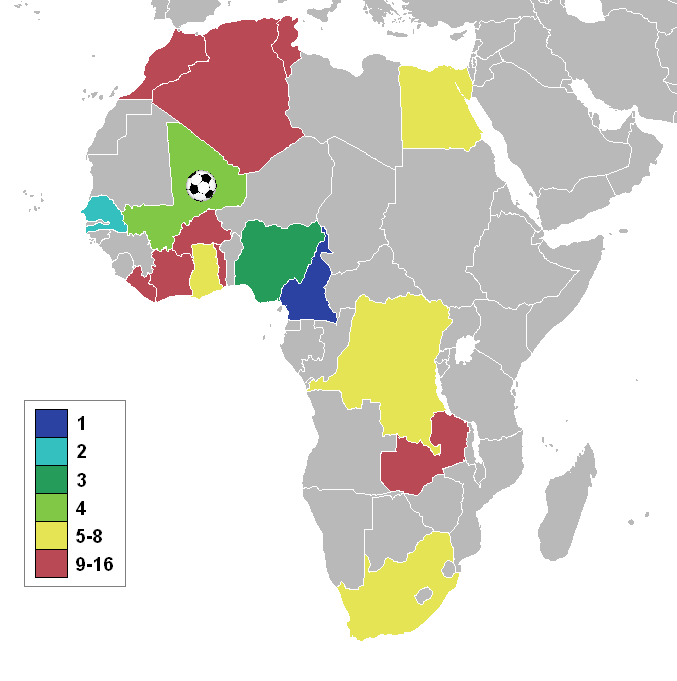 Countries positions in the African Cup of Nations 1st 2nd 3rd 4th 5th-8th 9th-16th Football denotes host nation